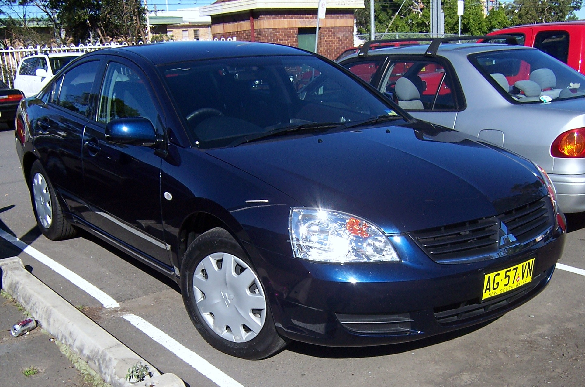 2005 Mitsubishi 380 (DB). Photographed in Sutherland, New South Wales, Australia.